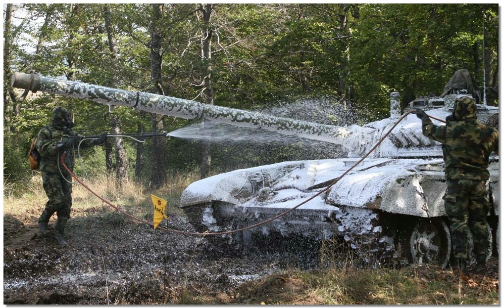 Serbian Army M-84 tank